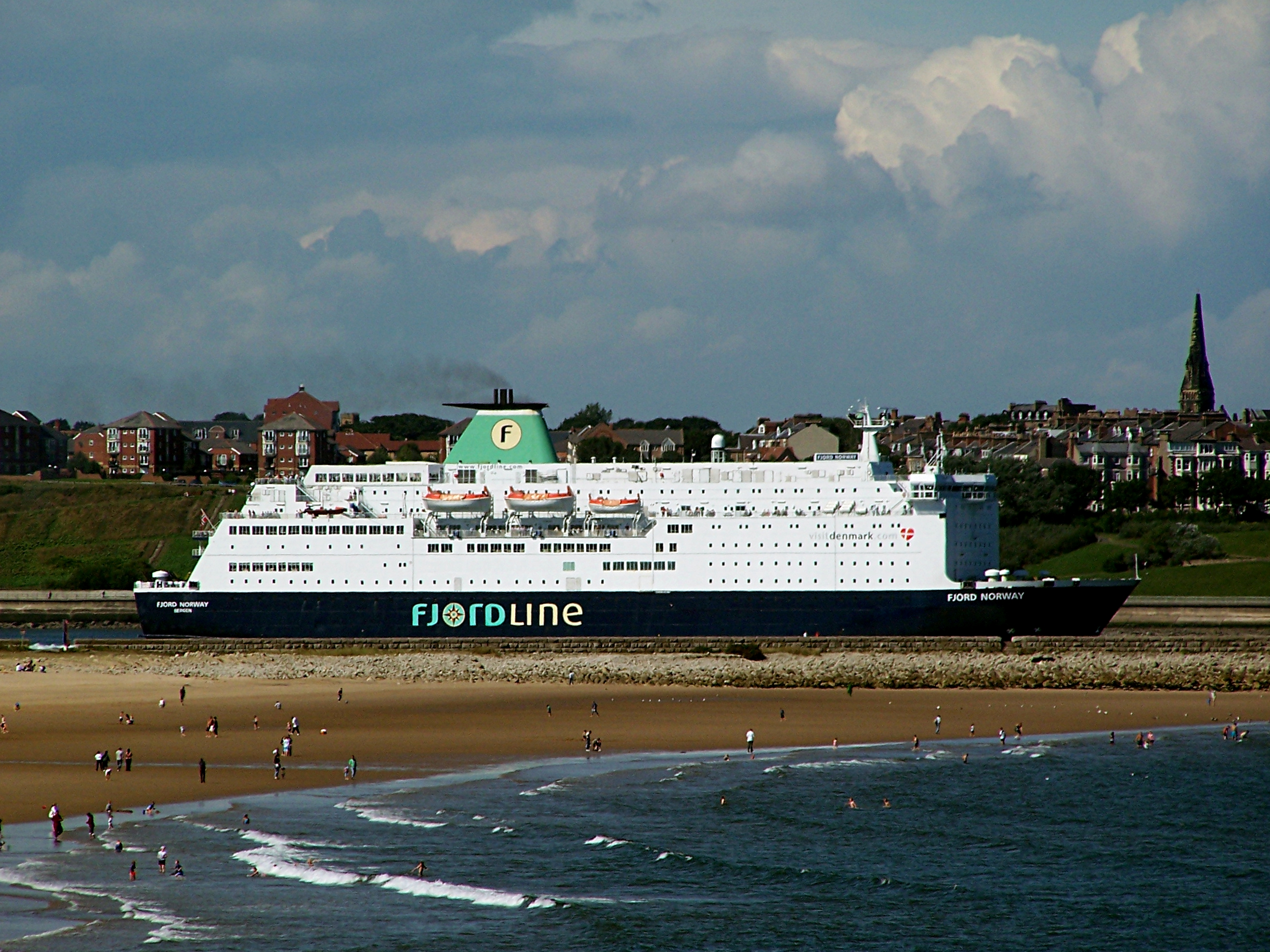 M/S Fjord Norway departing from Newcastle upon Tyne passes South Shields at the mouth of the River Tyne.